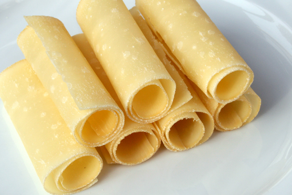 fadded cheese